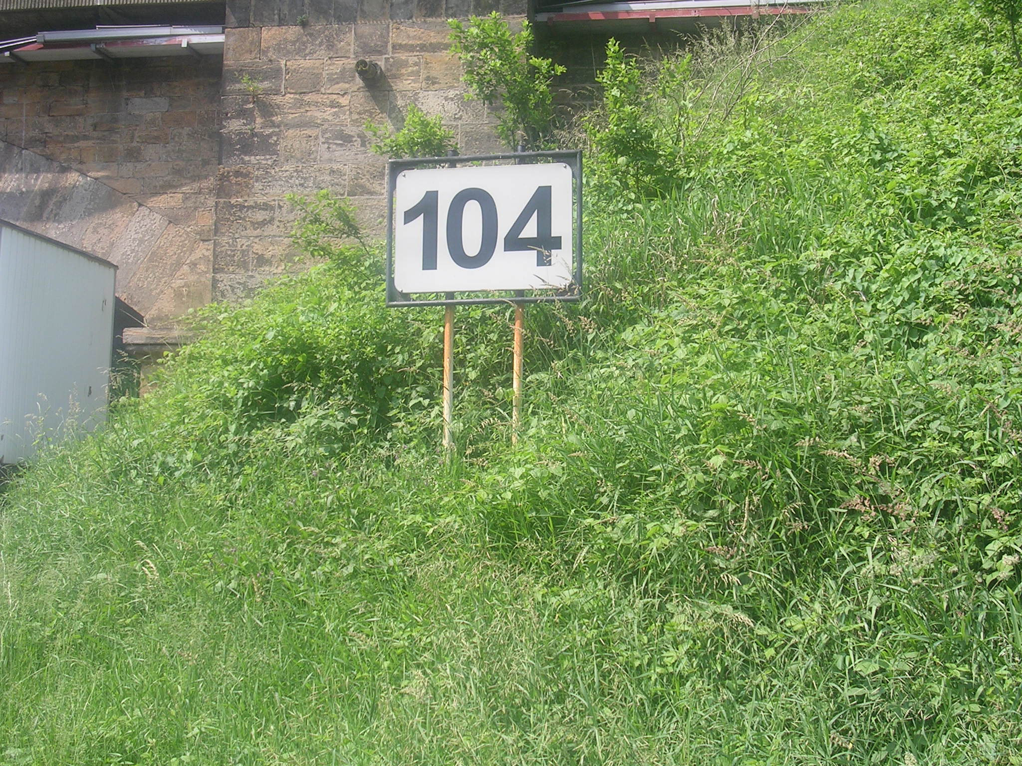 Elbe river log, Děčín-Dolní Žleb, the Czech Republic.